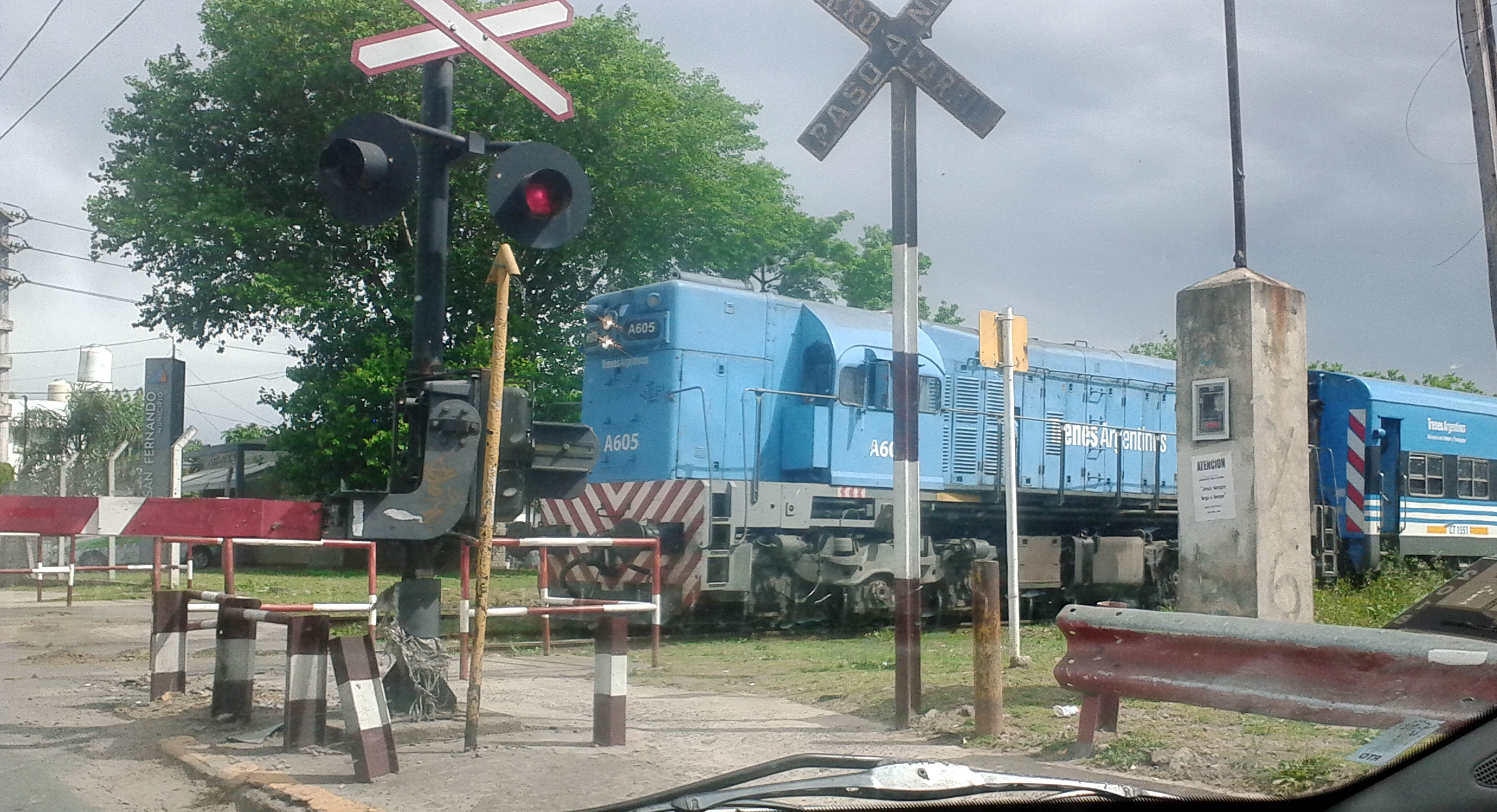 Train that runs on the Capilla del Señor-Victoria branch of Mitre Line, going to the Adolfo Schweizer station. The train is about to cross the level crossing of Blanco Encalada street in Victoria, Buenos Aires (Argentina).The locomotive is a General Motors G-12W, brought to Argentina in 1957, originally for the Sarmiento Line.[1] Photo taken from the northside.